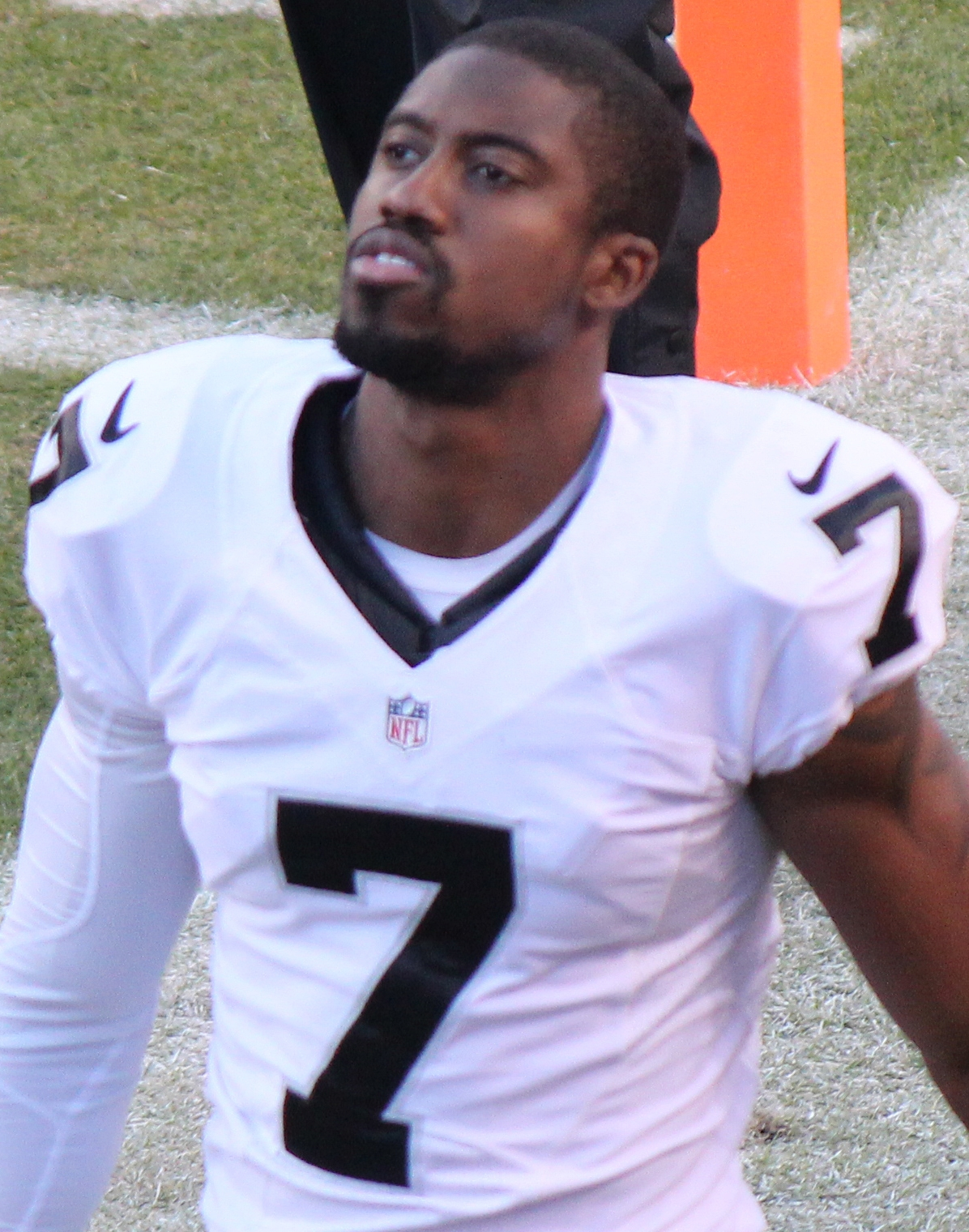 Marquette King, a player on the National Football League.